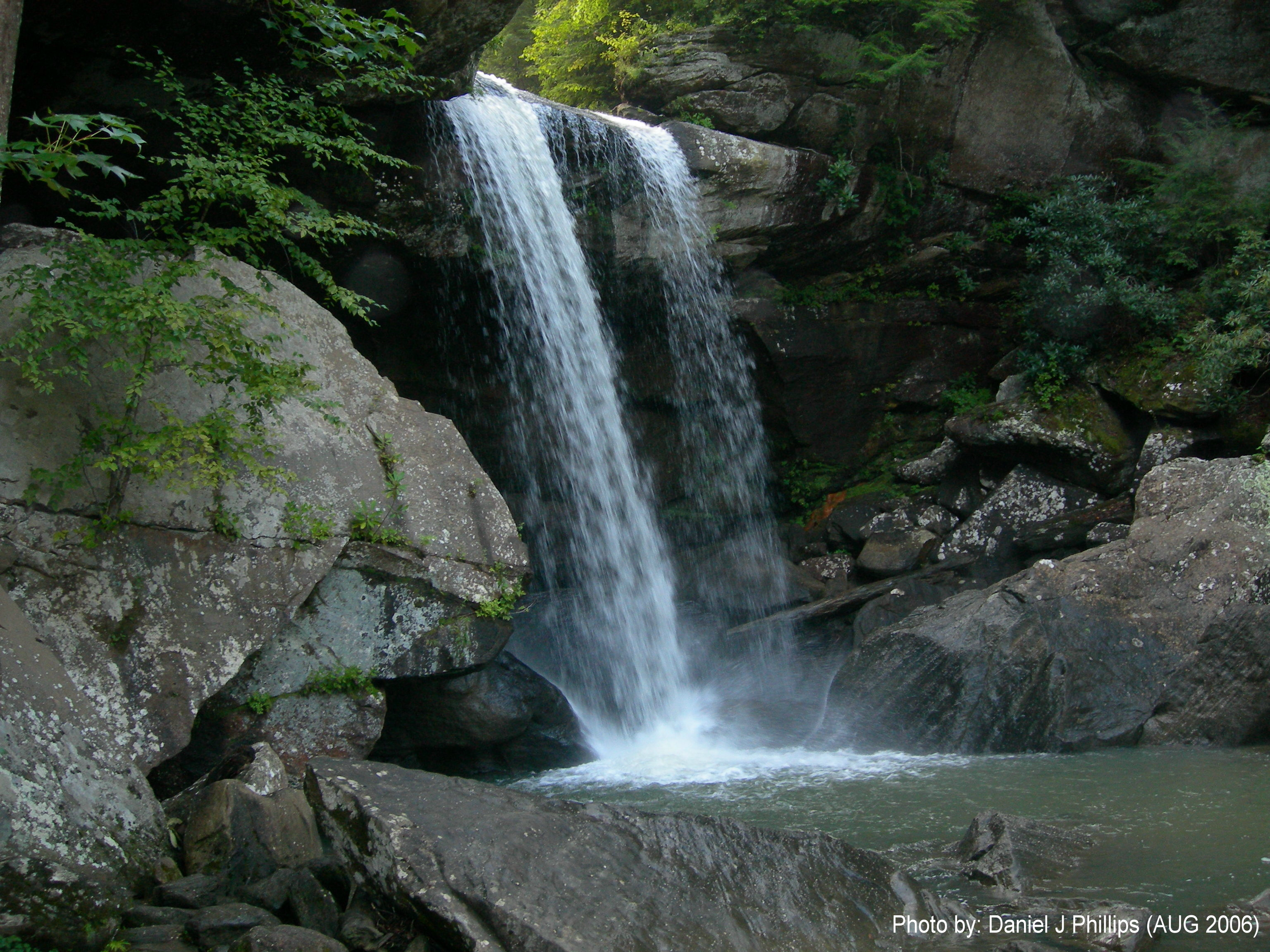 This photo of Eagle Falls in Kentucky, USA, was taken 8/12/2006 at 6:58 PM by Daniel Phillips. Photo submitted by: Daniel Phillips.